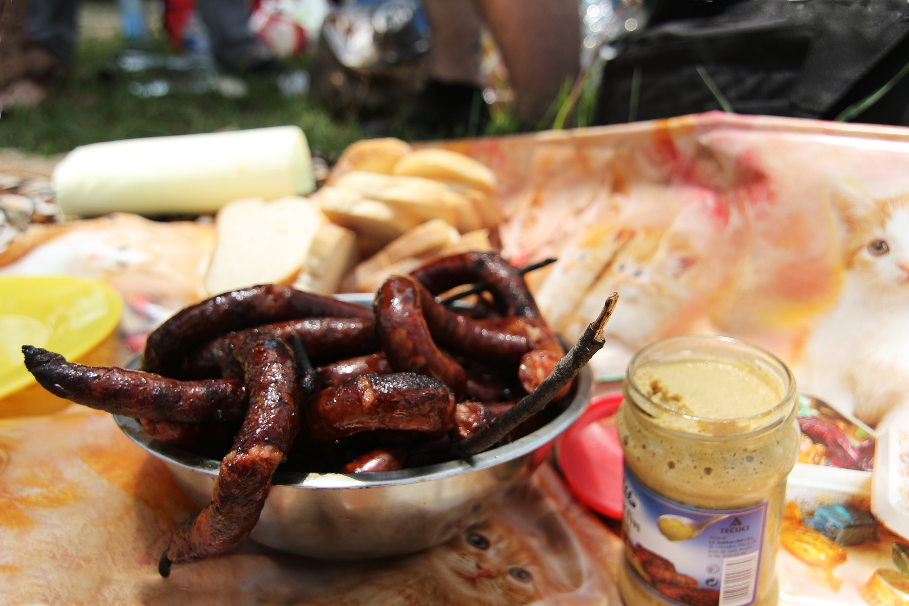 Pleșcoi sausages with mustard and breadRomână: Cârnați de Pleșcoi cu muștar și pâine